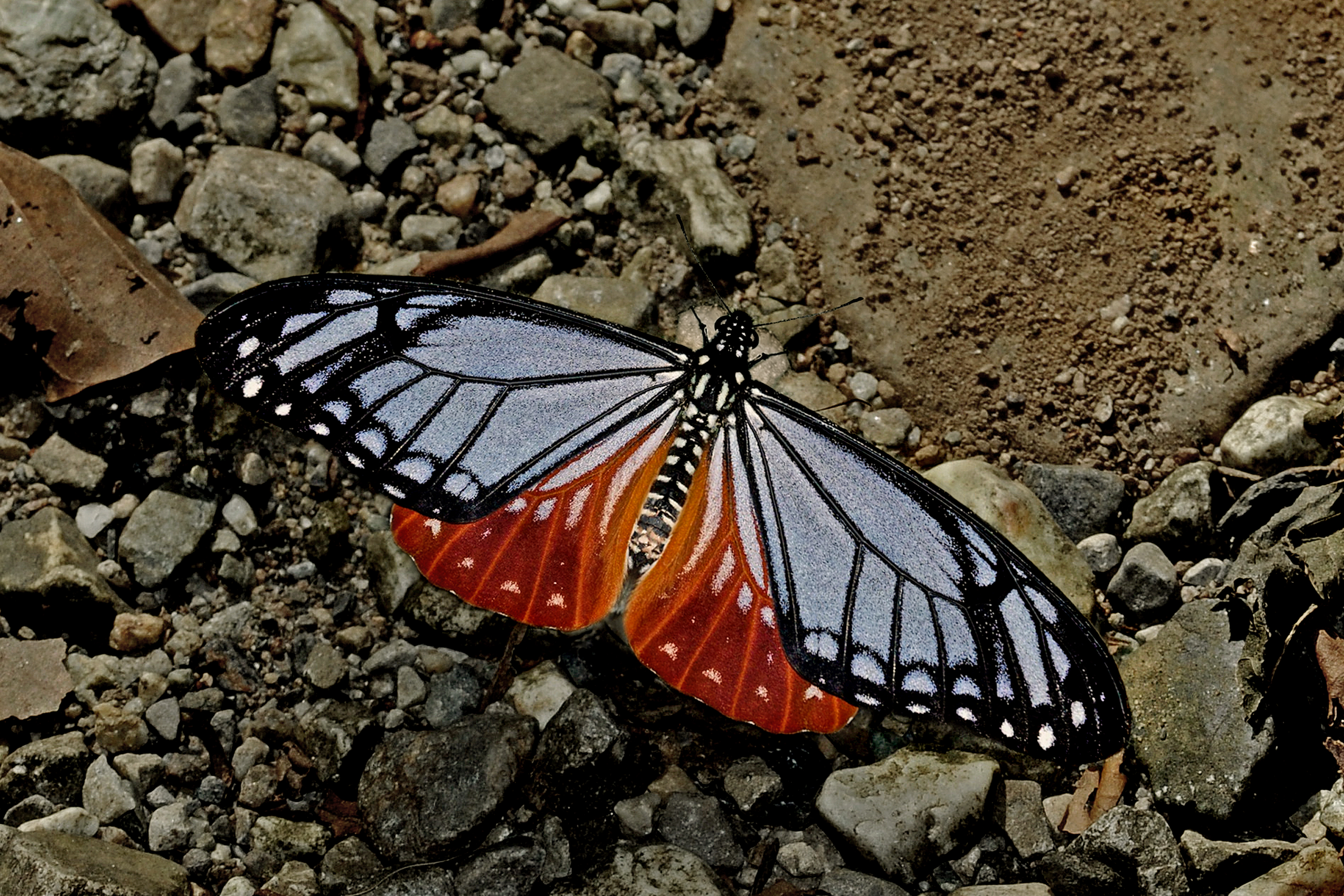 Open wing posture Basking of Papilio agestor Gray, 1831 – Tawny Mime (Male) . This specimen belongs to sub species Papilio agestor agestor Gray, 1831 – Nepalese Tawny Mime .